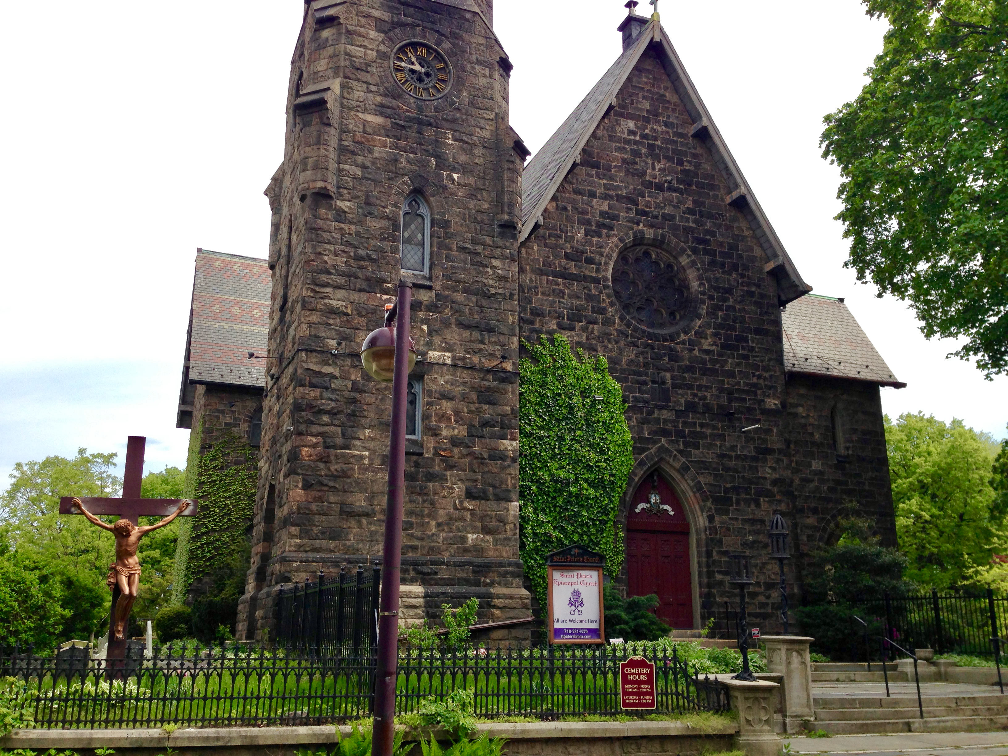 St. Peter's Episcopal Church in Westchester Square, Bronx, NY - church front view.